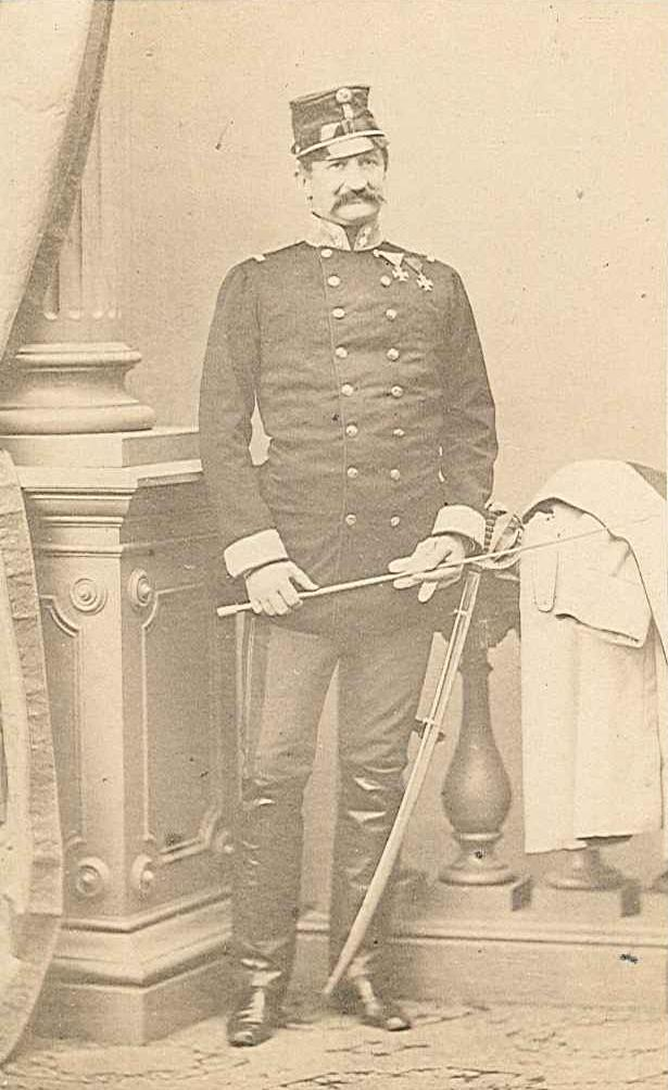 Karl Ludwig Gruenne, Count of Pinchard